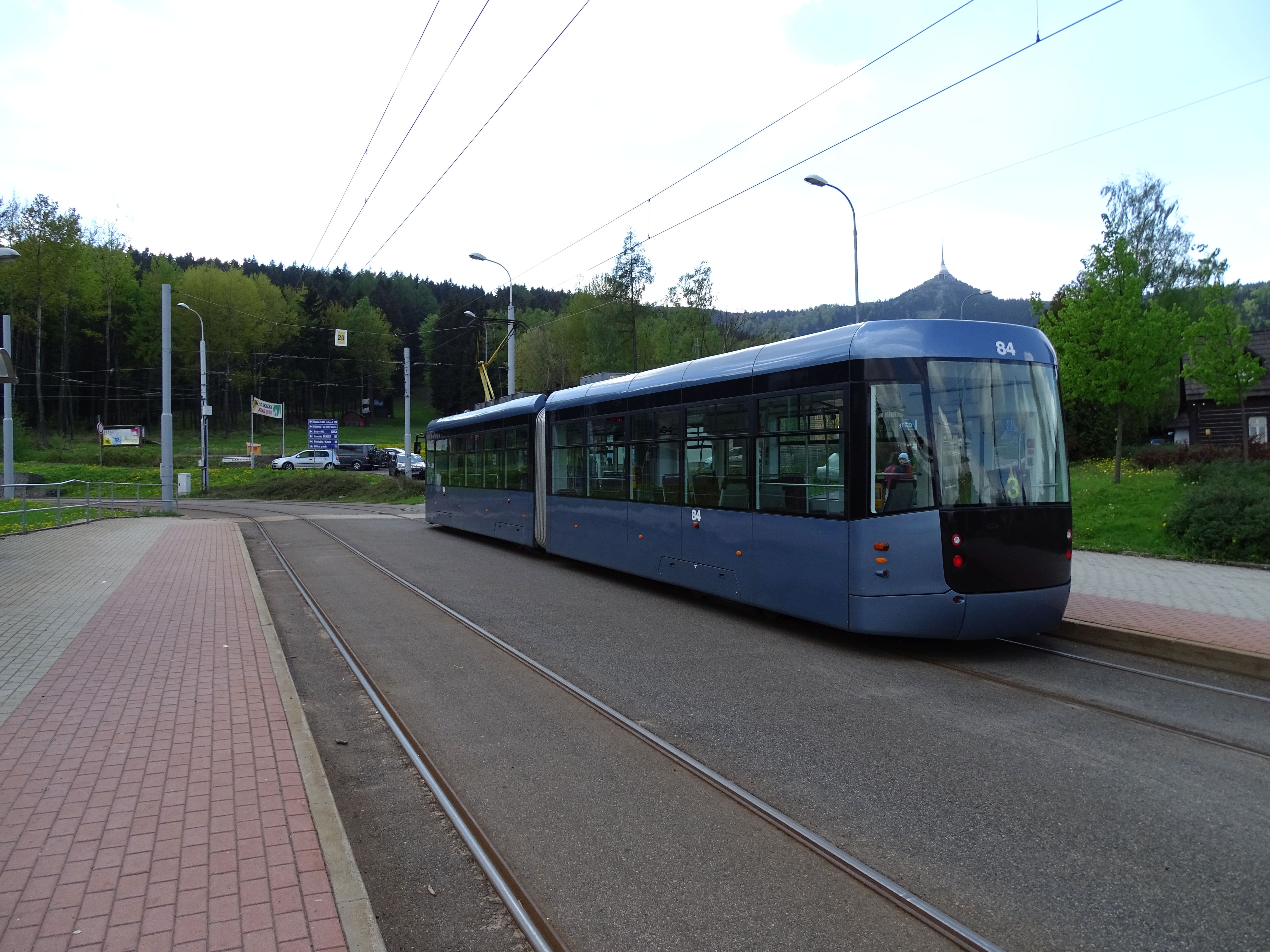 Liberec XIX-Horní Hanychov, Liberec District, Liberec Region, Czech Republic. Tram stop Horní Hanychov, tram EVO2 no. 84.